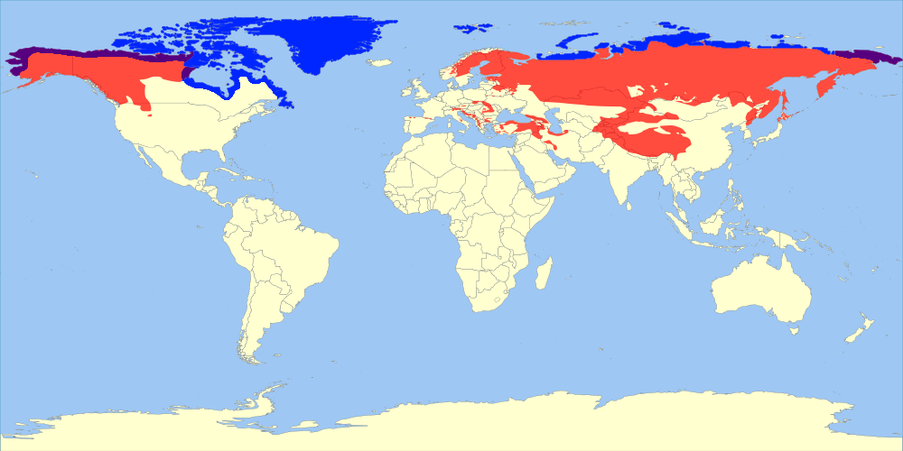 The red shading indicates the range of the brown bear. The blue shading indicates the range of the polar bear. The purple shading indicates areas where both live. This is an example of peripatric speciation because polar bears' ancestors moved to a new ecological niche on the periphery of the brown bears' original habitat.